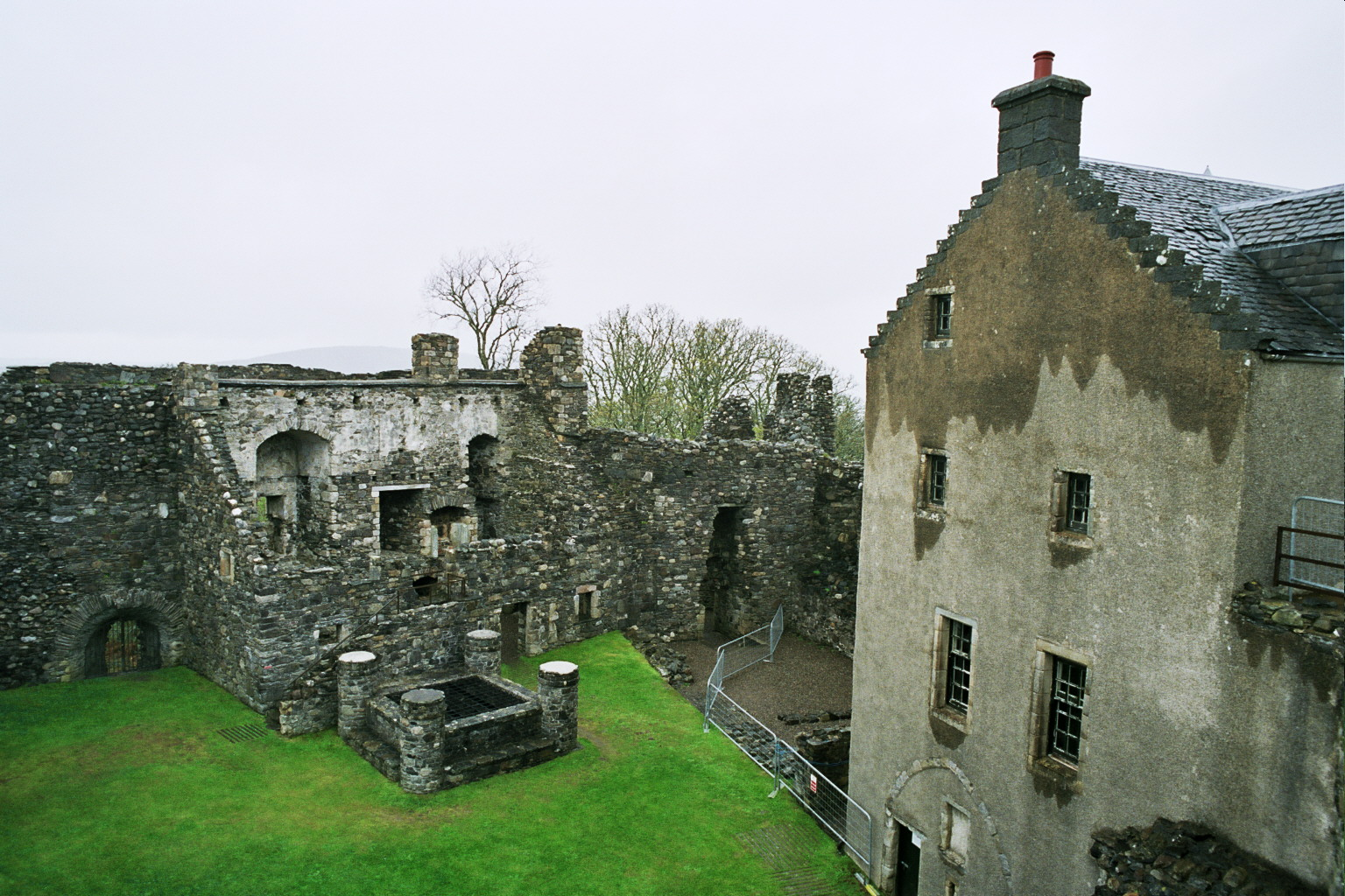 Interior view of Dunstaffnage Castle, near Oban, Scotland, showing the north-west range, and the well.